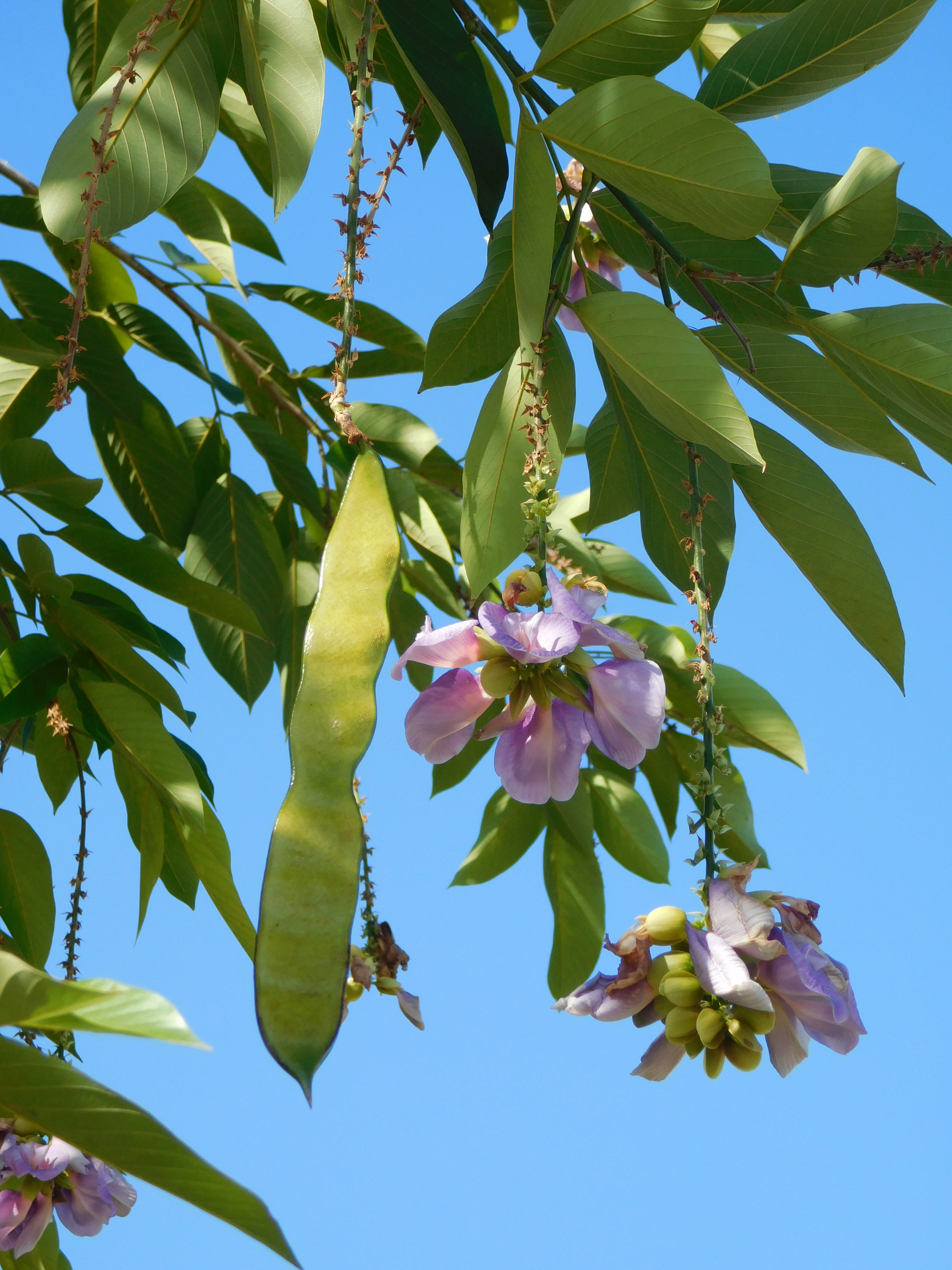 Bayamón, Puerto Rico